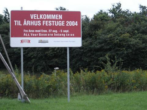 photo taken in Århus, modified and uploaded by Benutzer:Benson.by